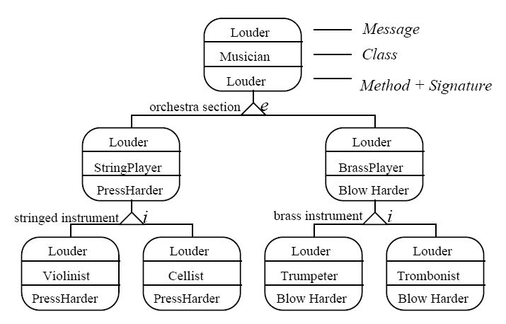 18 The Behavior Diagram for methods Implementing Louder